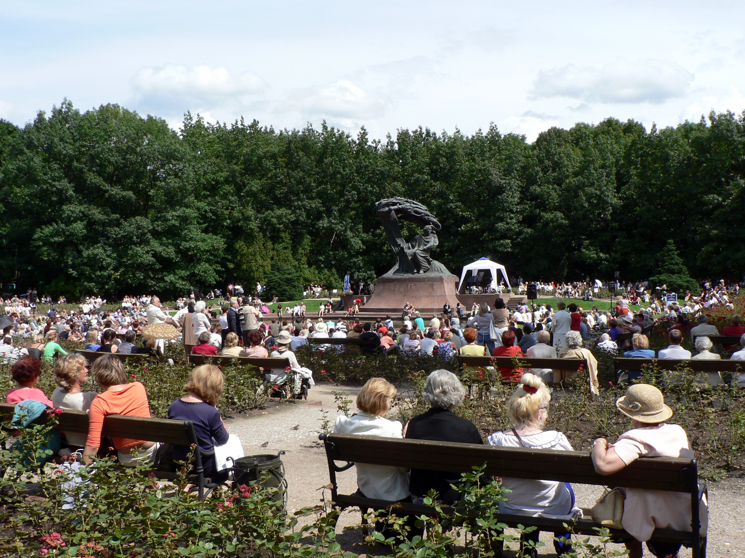 Chopin monument in Łazienki Park, Warsaw, Poland